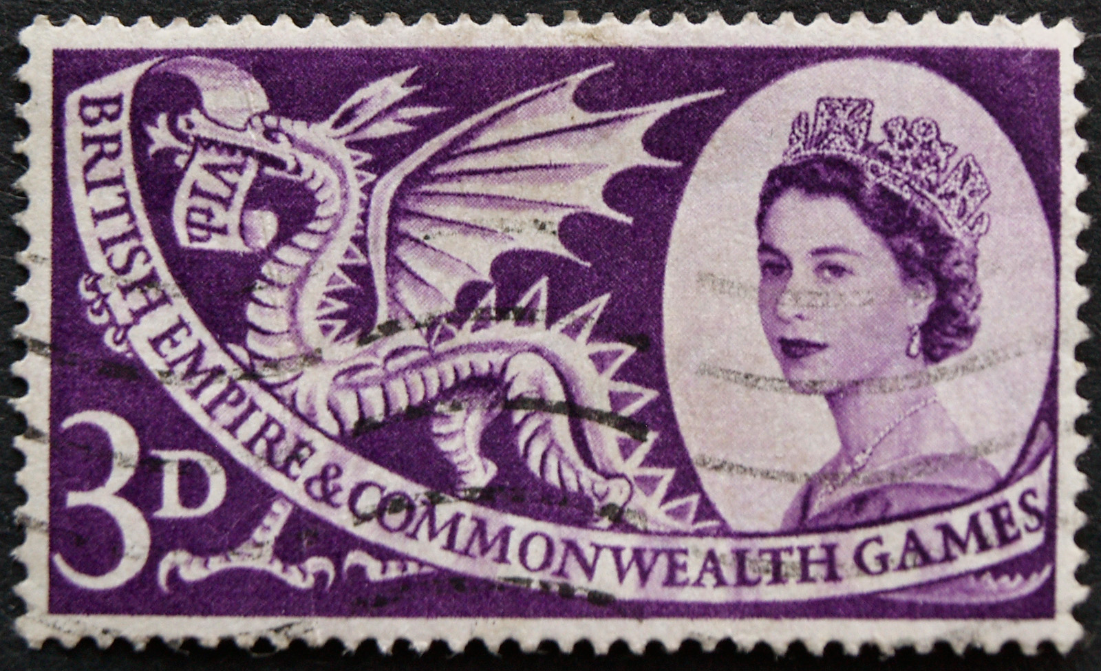 3pence British stamp with theme of 1958 British Empire and Commonwealth Games including the Welsh Dragon as the games were held in Cardiff, capital of Wales